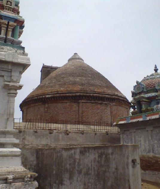 Palaivananathar Temple Granary